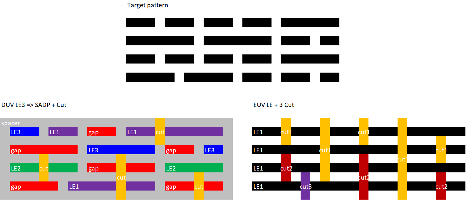 For the given target pattern, both DUV and EUV are expected to require 4 masks. EUV's extra masks are for cutting lines to maintain sufficiently small distance between line ends.refJ. Van Schoot et al., Proc. SPIE 11147, 1114710 (2019). Since subresolution assist features (SRAFs) in the gap locations may stochastically print as dense features or defects,refP. De Bisschop and E. Hendrickx, Proc. SPIE 10957, 109570E (2019). refP. De Bisschop and E. Hendrickx, Proc. SPIE 10583, 105831K (2018). fixed pitch lines are assumed to be first EUV exposure.